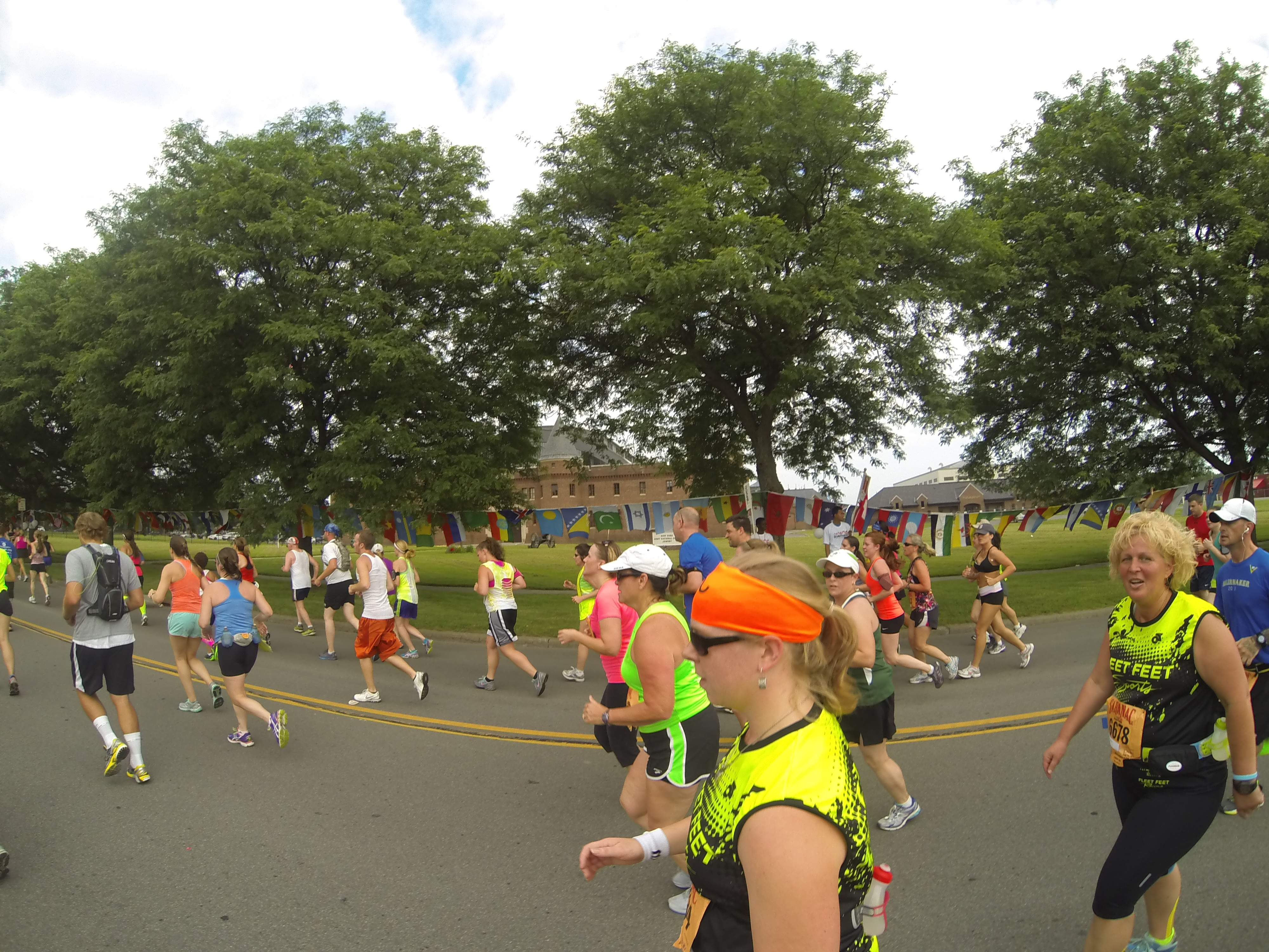 Runners participate in the annual Boilermaker Road Race, Utica, NY.